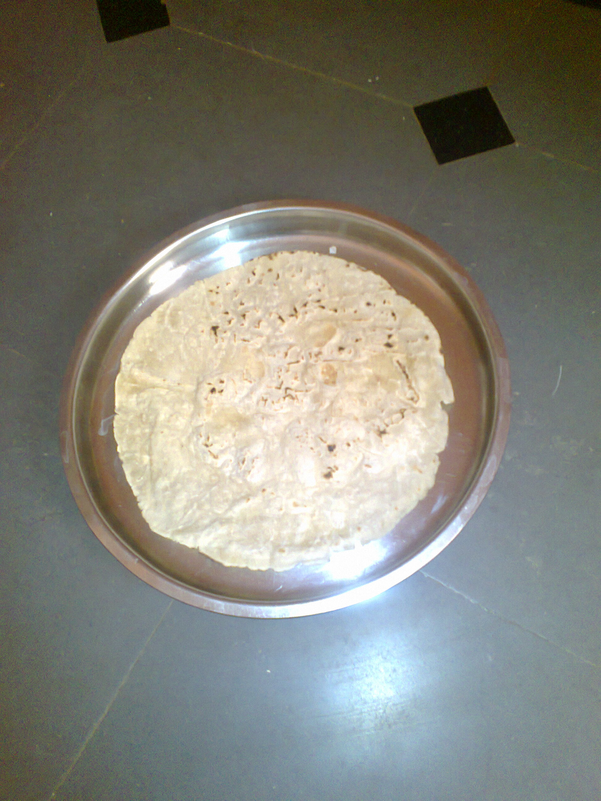 Jolada Rotti_Kannada_Karnataka_food